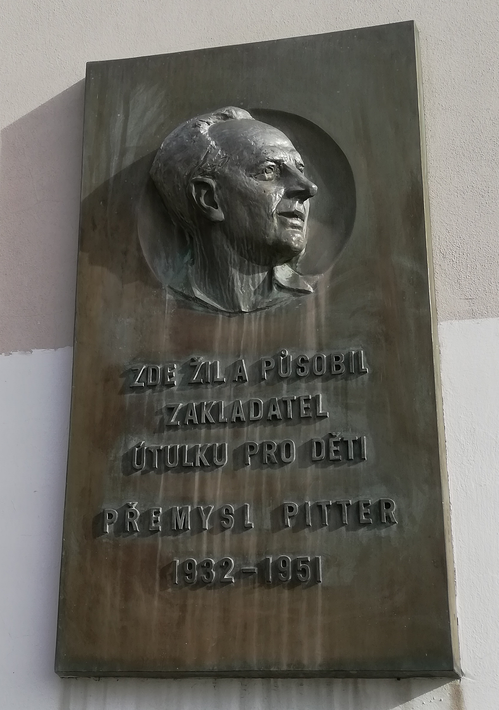 Prague-Žižkov, the Czech Republic. Sauerova 1836/2, Milíč's House, a plaque to Přemysl Pitter. - OpenStreetMap (Info)